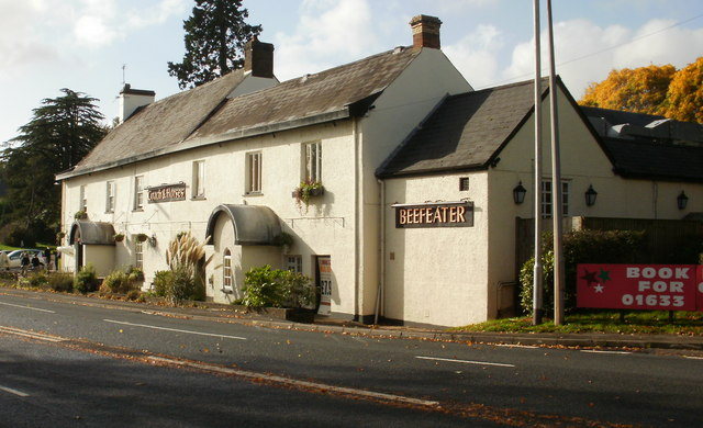 Coach and Horses , Castleton. On the north side of the A48. 897509 for a view from the other side, take 15 months previously